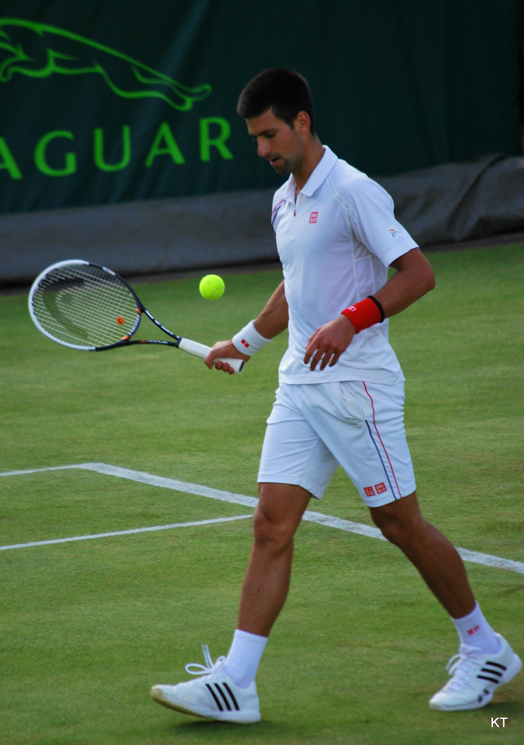 The Boodles, Stoke Park 2012.